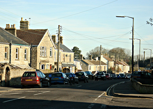 The original Peasedown